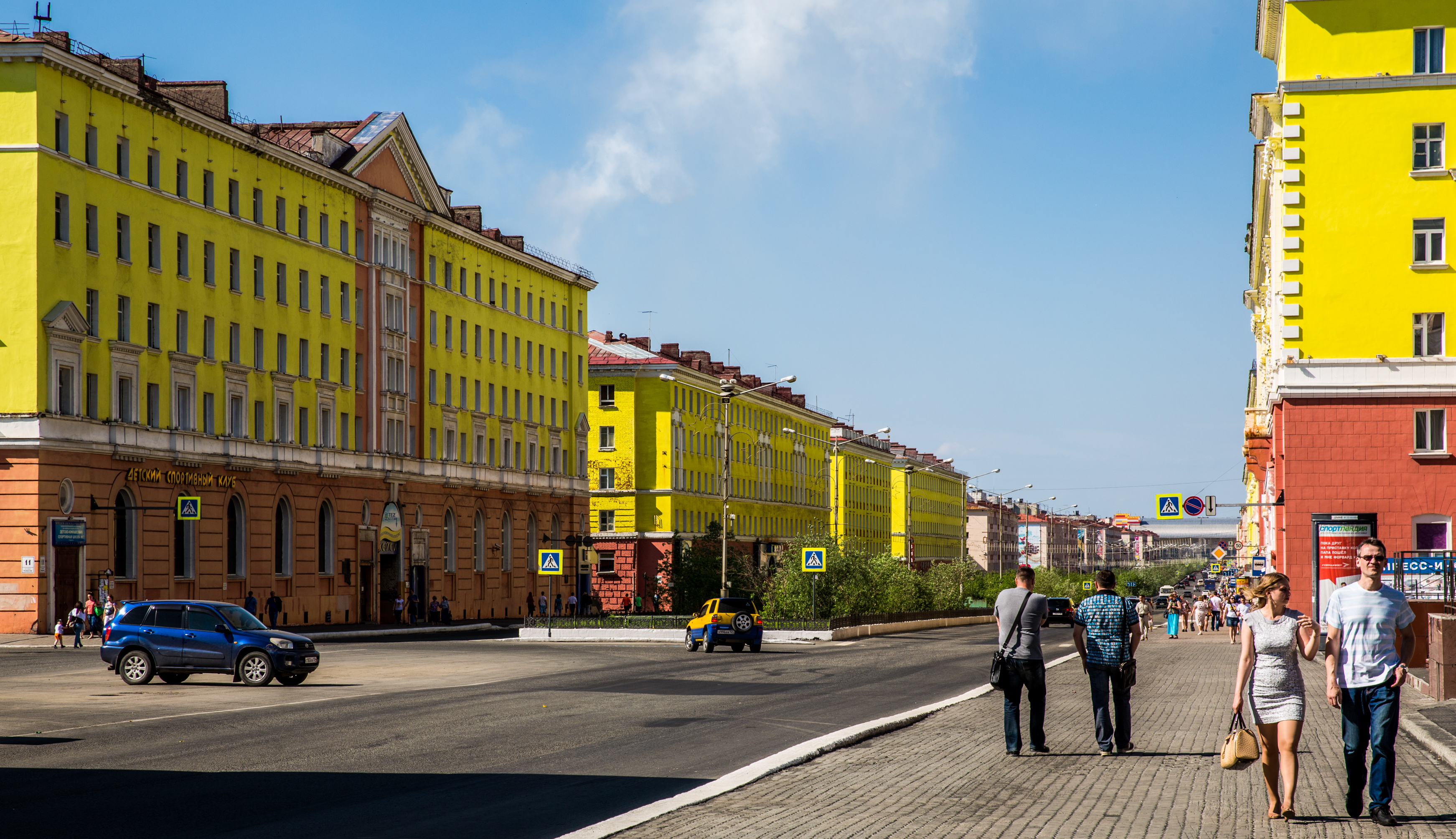 Norilsk Center, Leninsky Prospekt